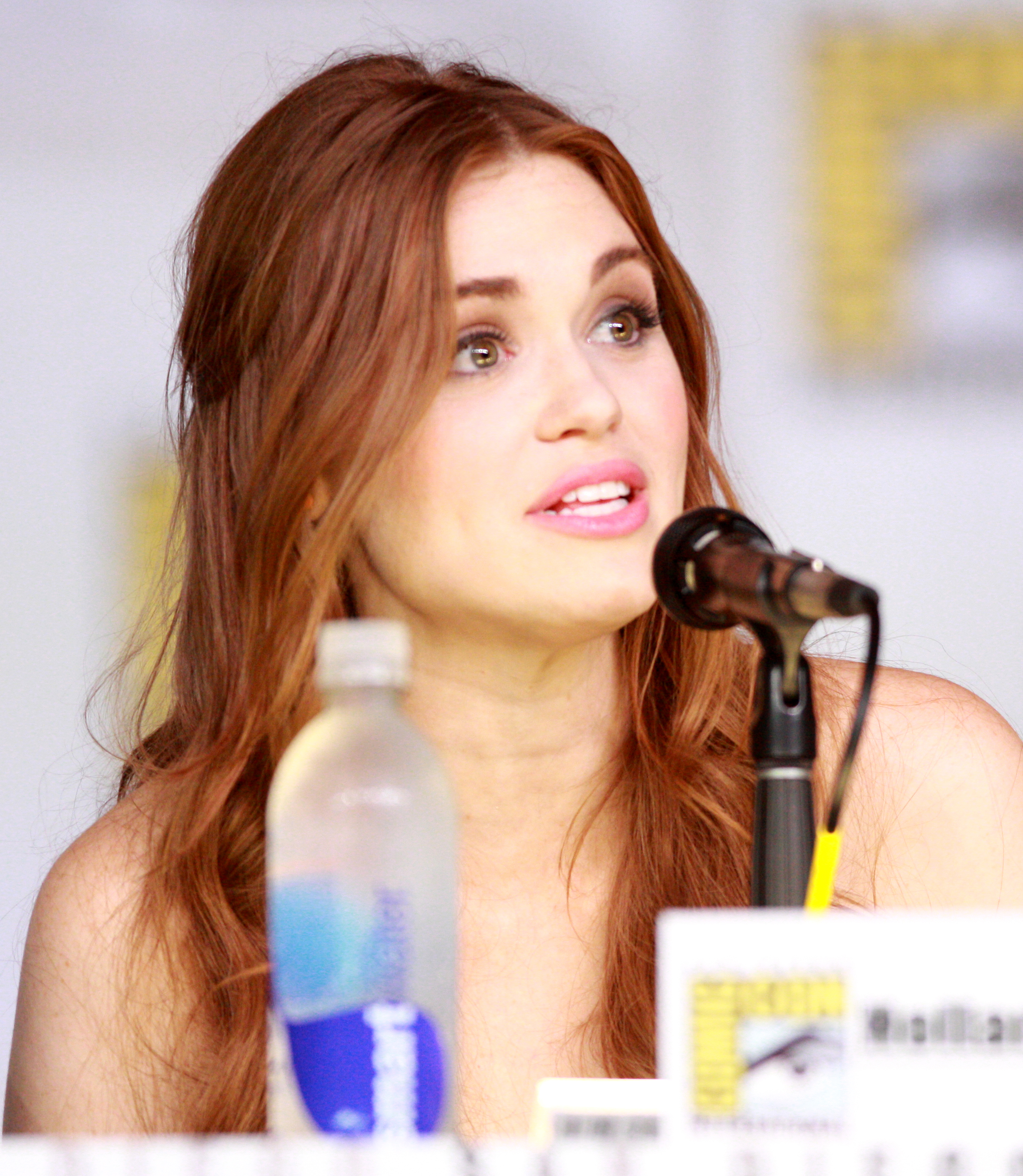 Holland Roden at the 2013 San Diego Comic Con International in San Diego, California.